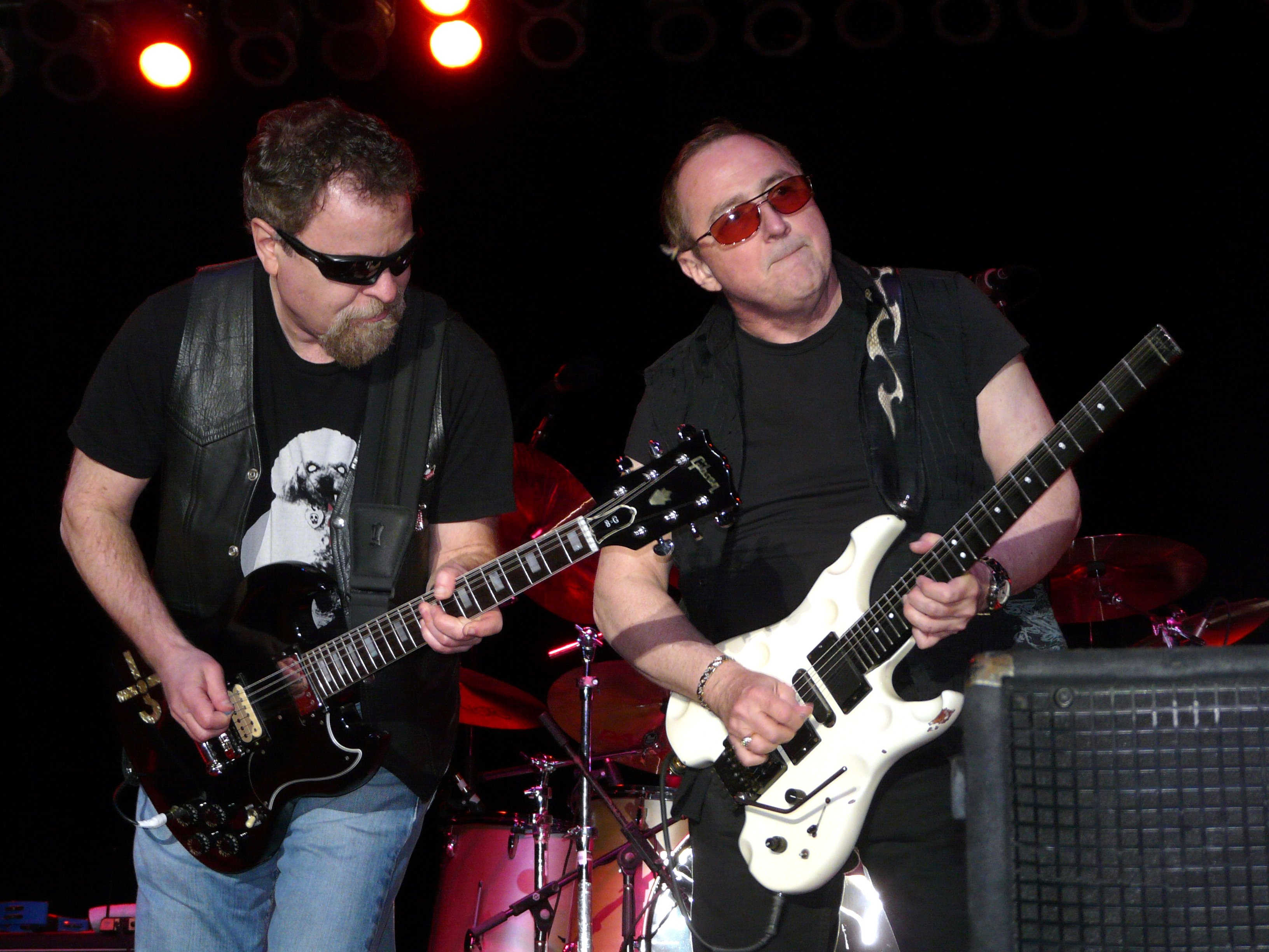 Blue Oyster Cult at the Red River Valley Fair in West Fargo, North Dakota on June 21, 2008